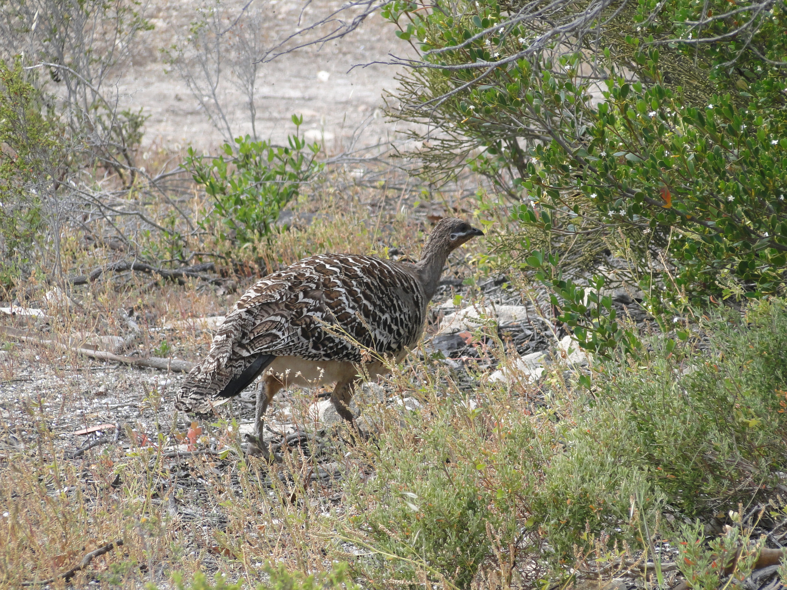 Mallee fowl, Leipoa ocellata, in the Innes National Park, South Australia